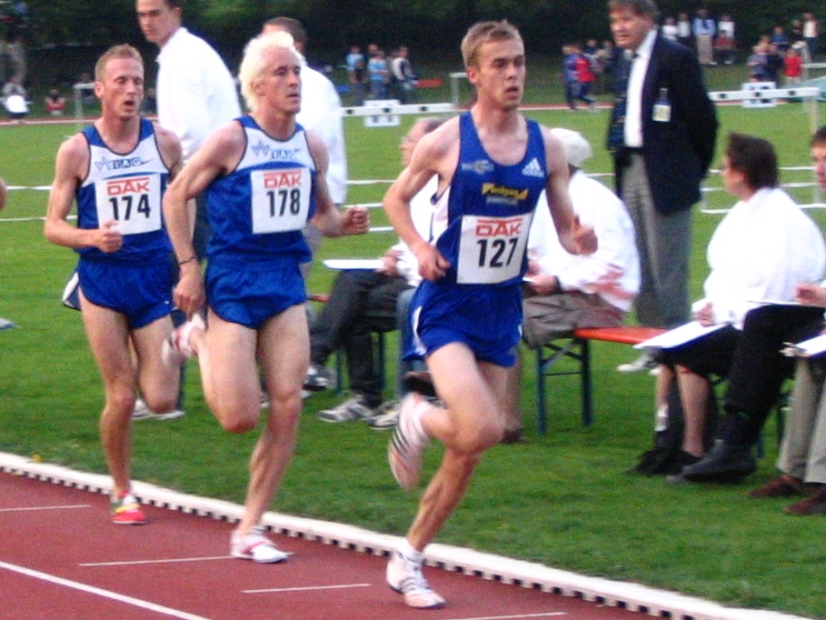 Jan Fitschen, Alexander Lubina und André Pollmächer (from left to right) at the German 10,000 m championship 2006